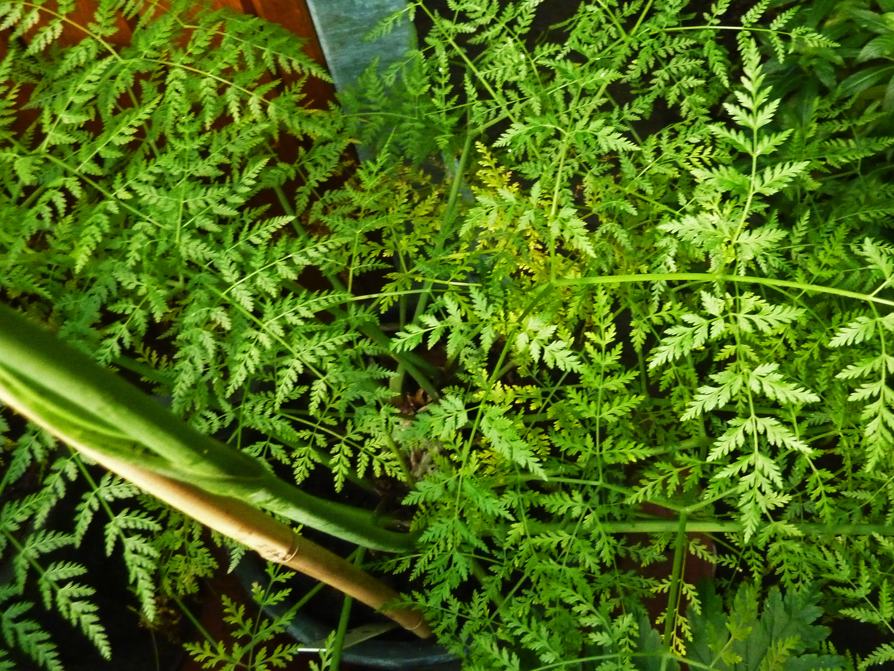 Todaroa aurea in the Botanical Garden, Berlin